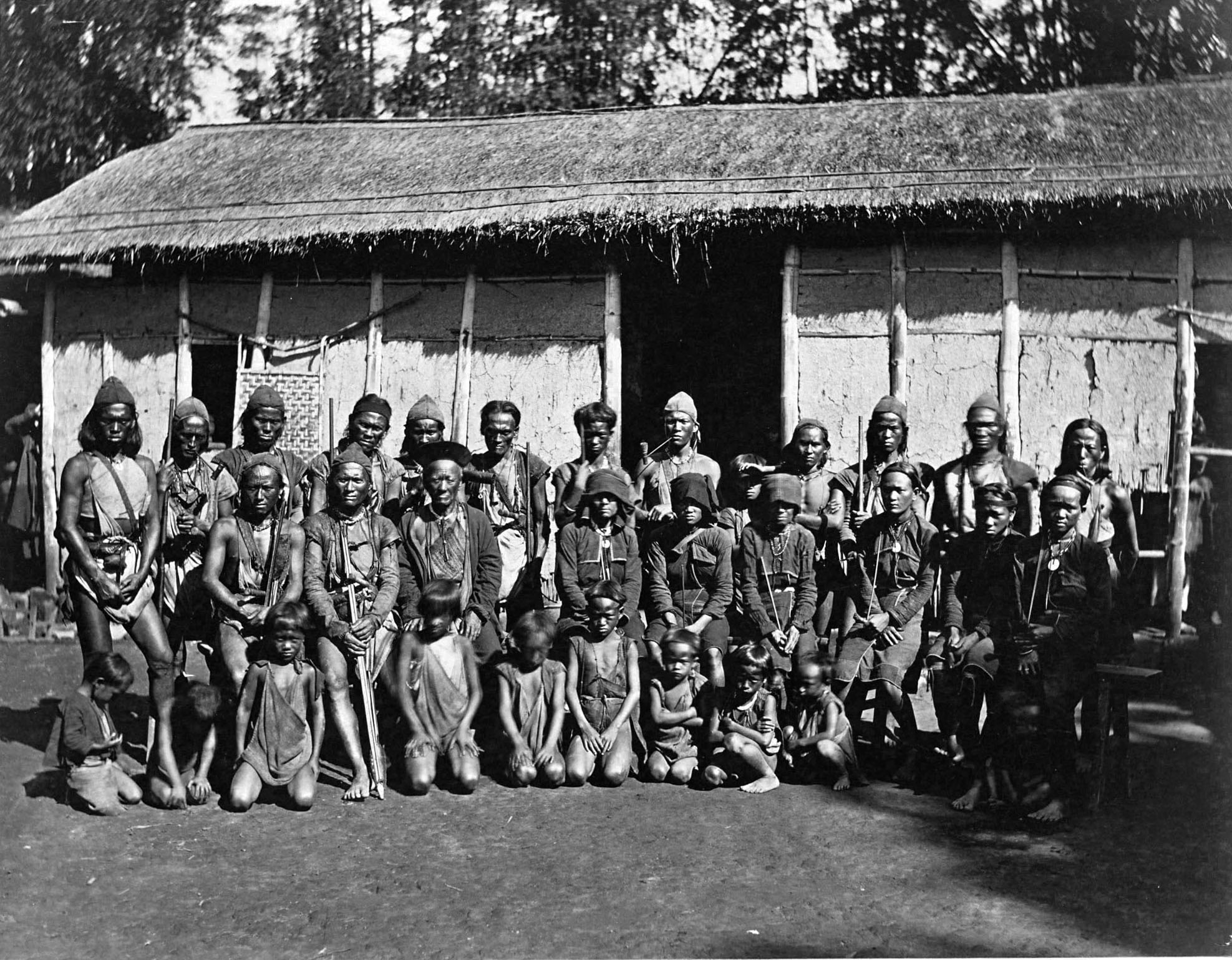 Photograph in From Afong, Photographer.